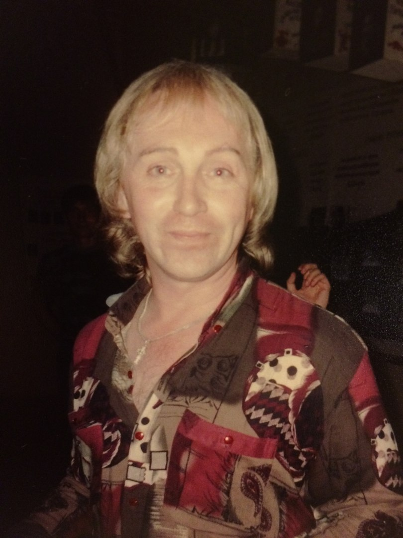 Олег Арзамасцев